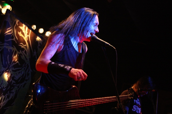 Tomasz "Titus" Pukacki